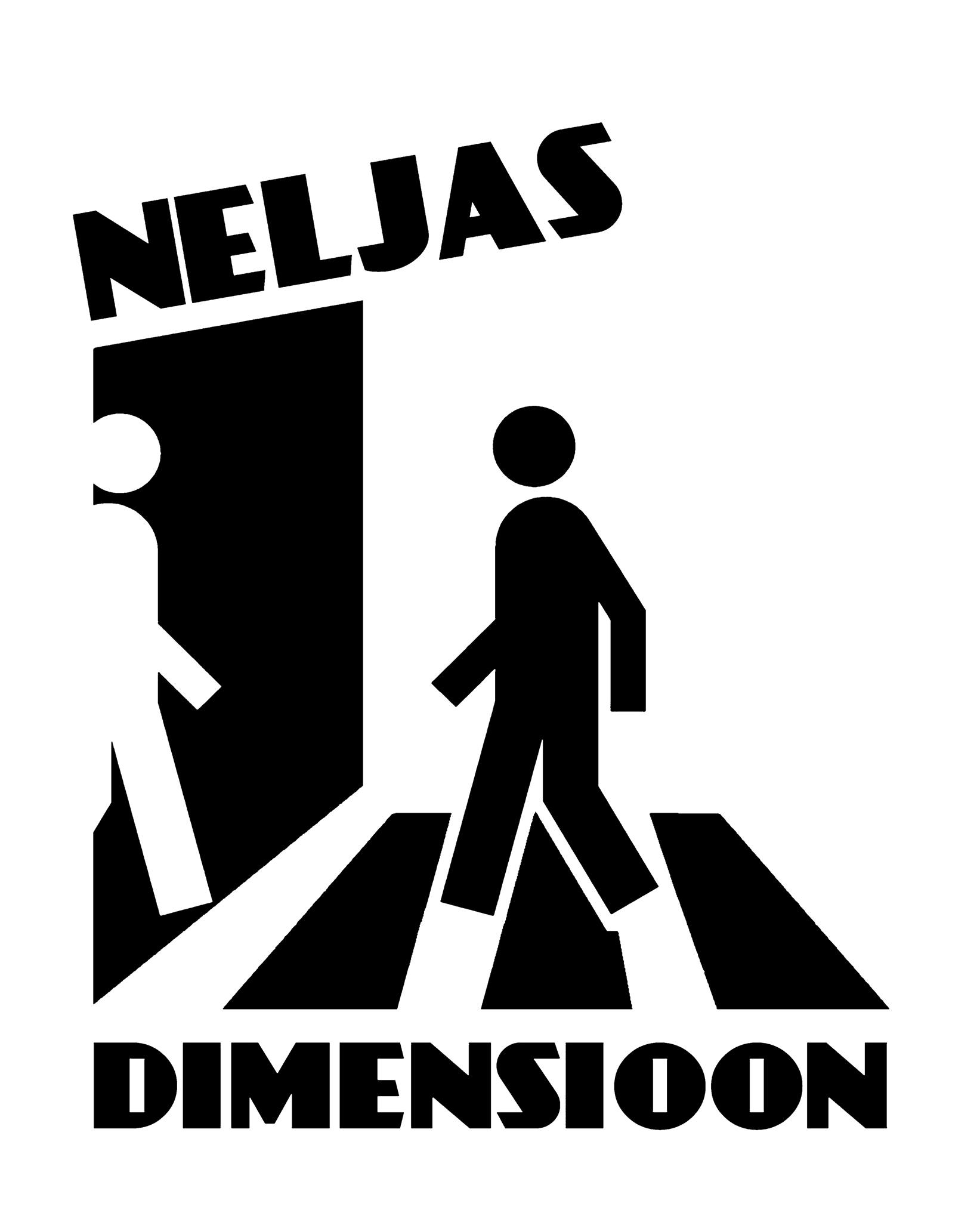 Logo of Neljas Dimensioon